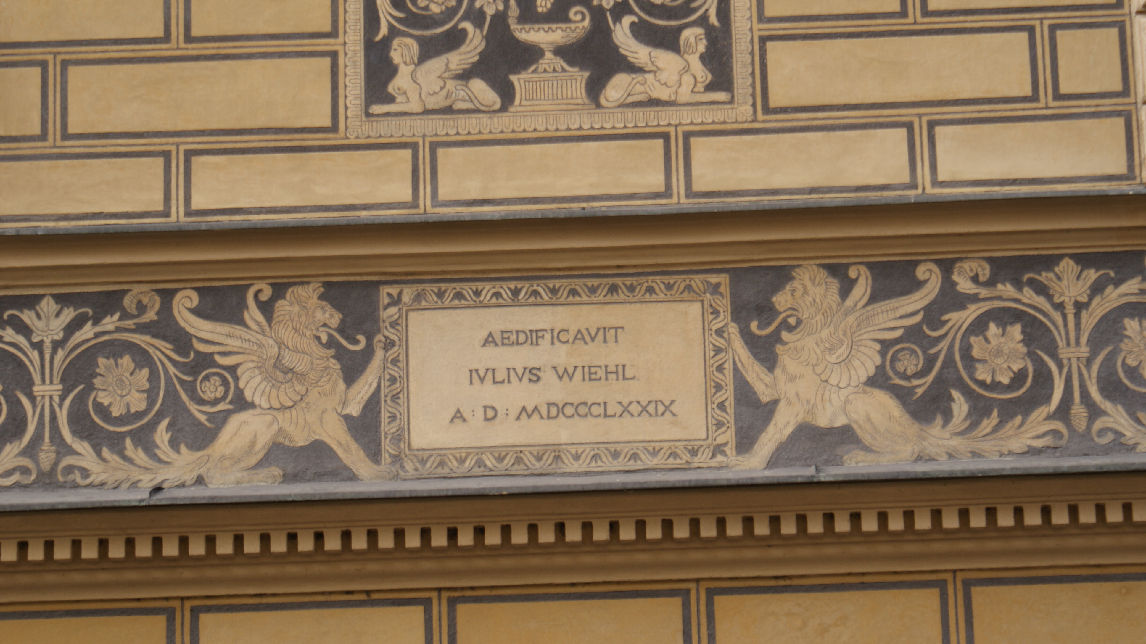 Wiehl - House No 560, Wilsonova Str., in Slaný, Kladno District, Central Bohemian Region, Czech Republic.